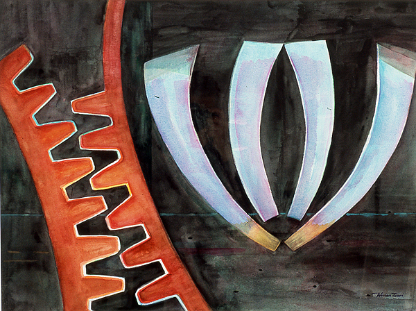 "Samverkan" is a Swedish word which means approx. "Collaboration".